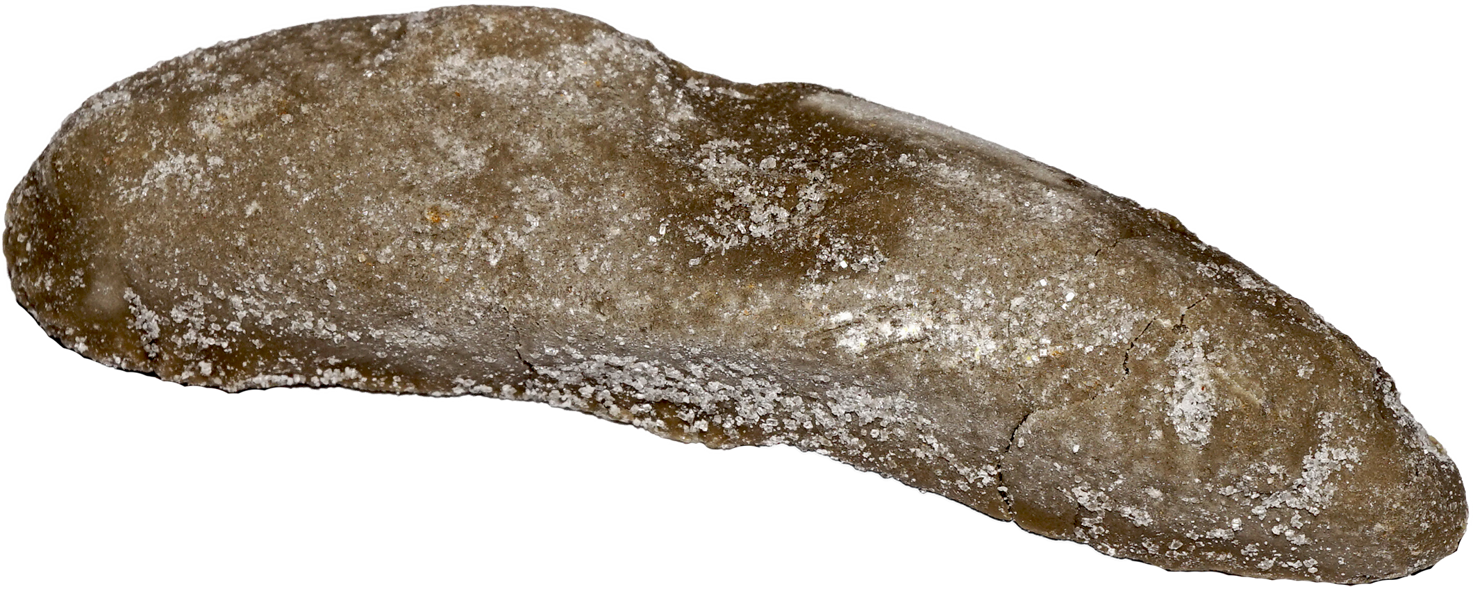 Banana-shaped soft salmiak marshmallow candy.